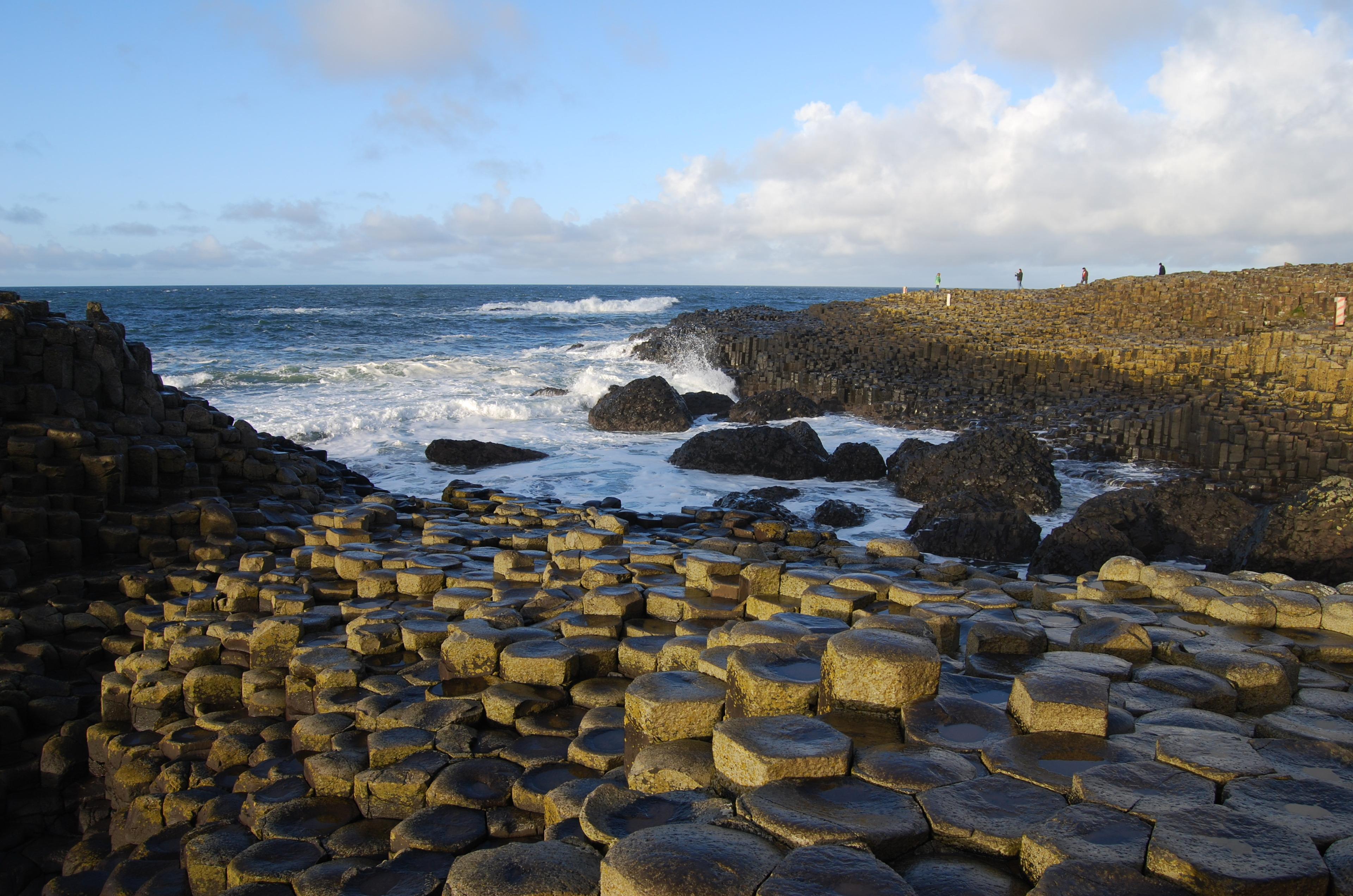 Giant’s Causeway, Northern Ireland. Hexagonal basalts.